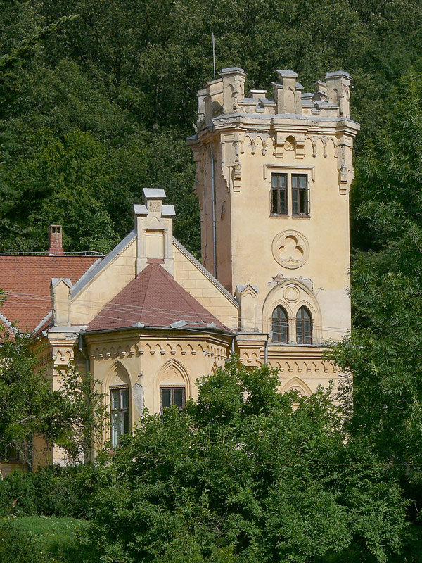 The Zichy Castle in GheghieRomână: Castelul Zichy din Gheghie